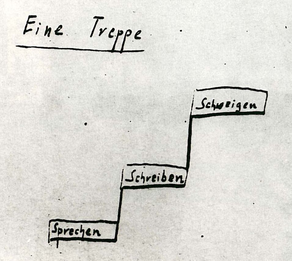 from the German author Kurt Tucholsky